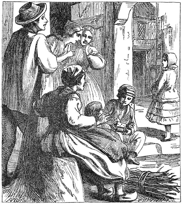 From 'Andersens Sproken en vertellingen' by Hans Christian Andersen, Titia van der Tuuk (ed.) and Simon Jacob Andriessen (trans.). Gebroeders E. & M. Cohen, Nijmegen - Arnhem. Illustrated by Alfred Walter Bayes (1832-1909) and engraved by the Dalziel Brothers (Edward Daziel, 1817-1905; George Daziel, 1815-1902).